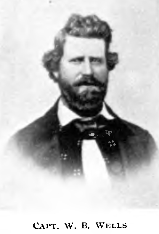 W.B. Wells, photograph